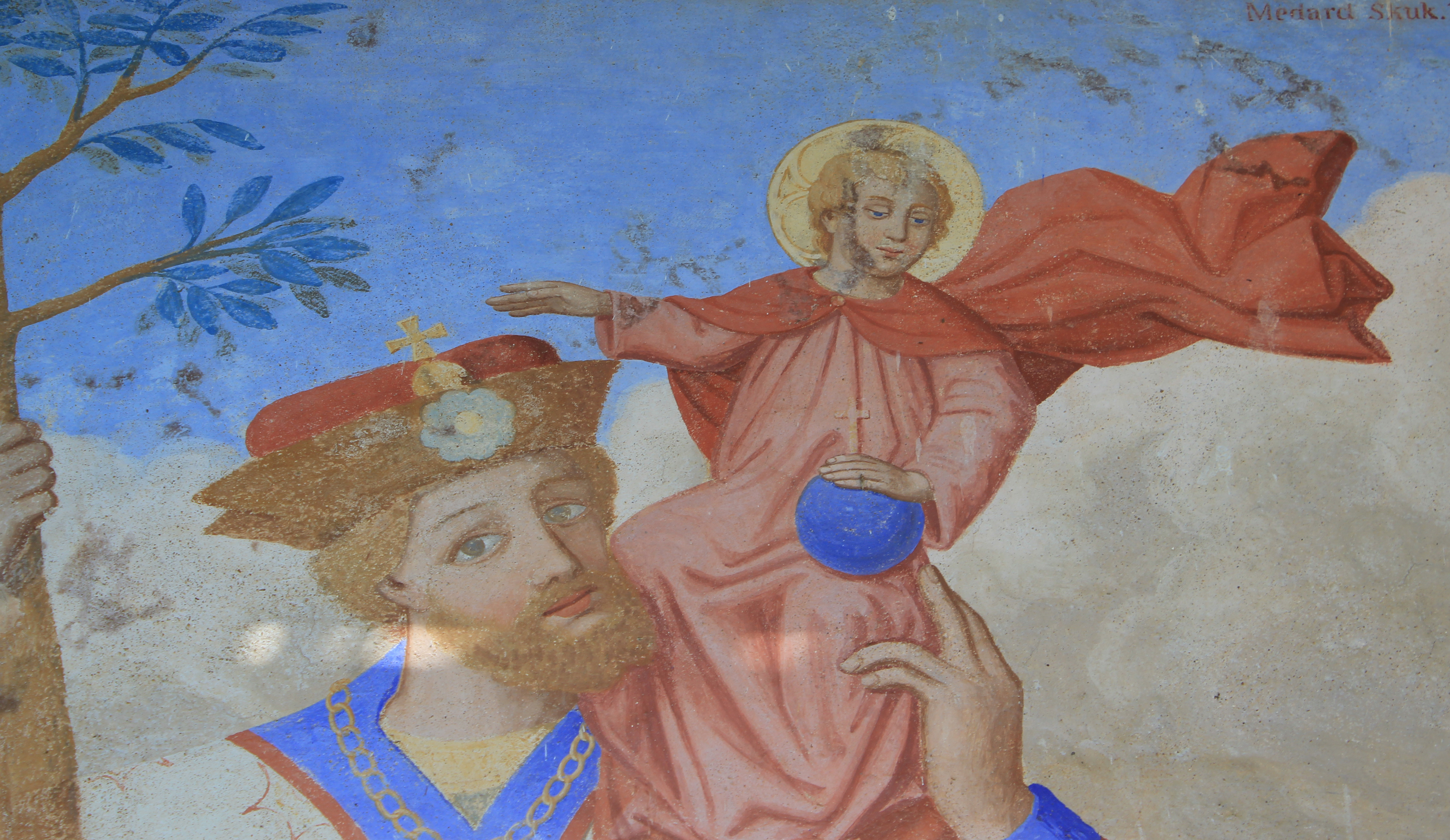 Church St Margaretha in Remschenig in the community of Eisenkappel-Vellach -detail